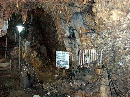 Nisshu-do